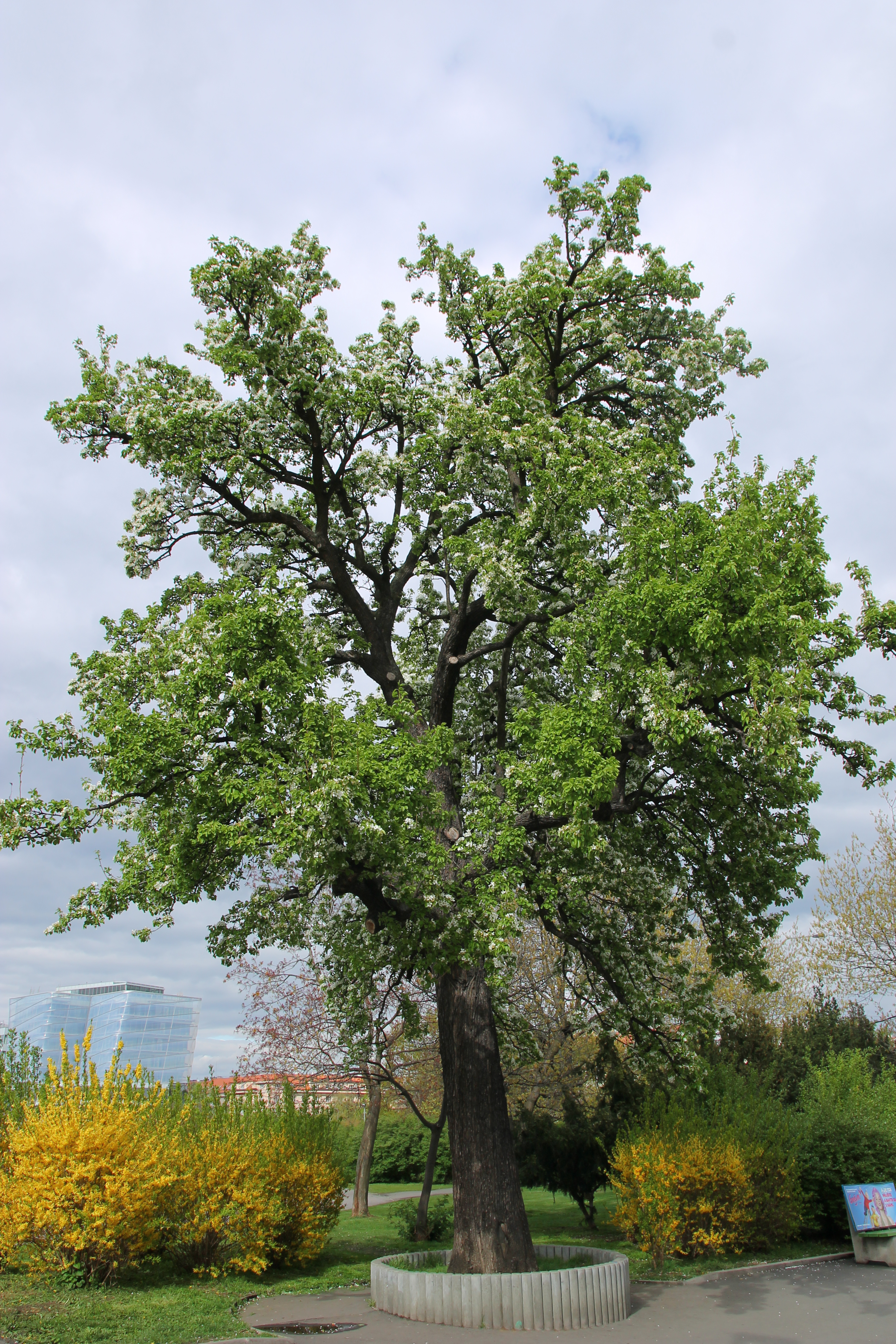 Pear tree at Vítězné náměstí (Victory Square) in Prague